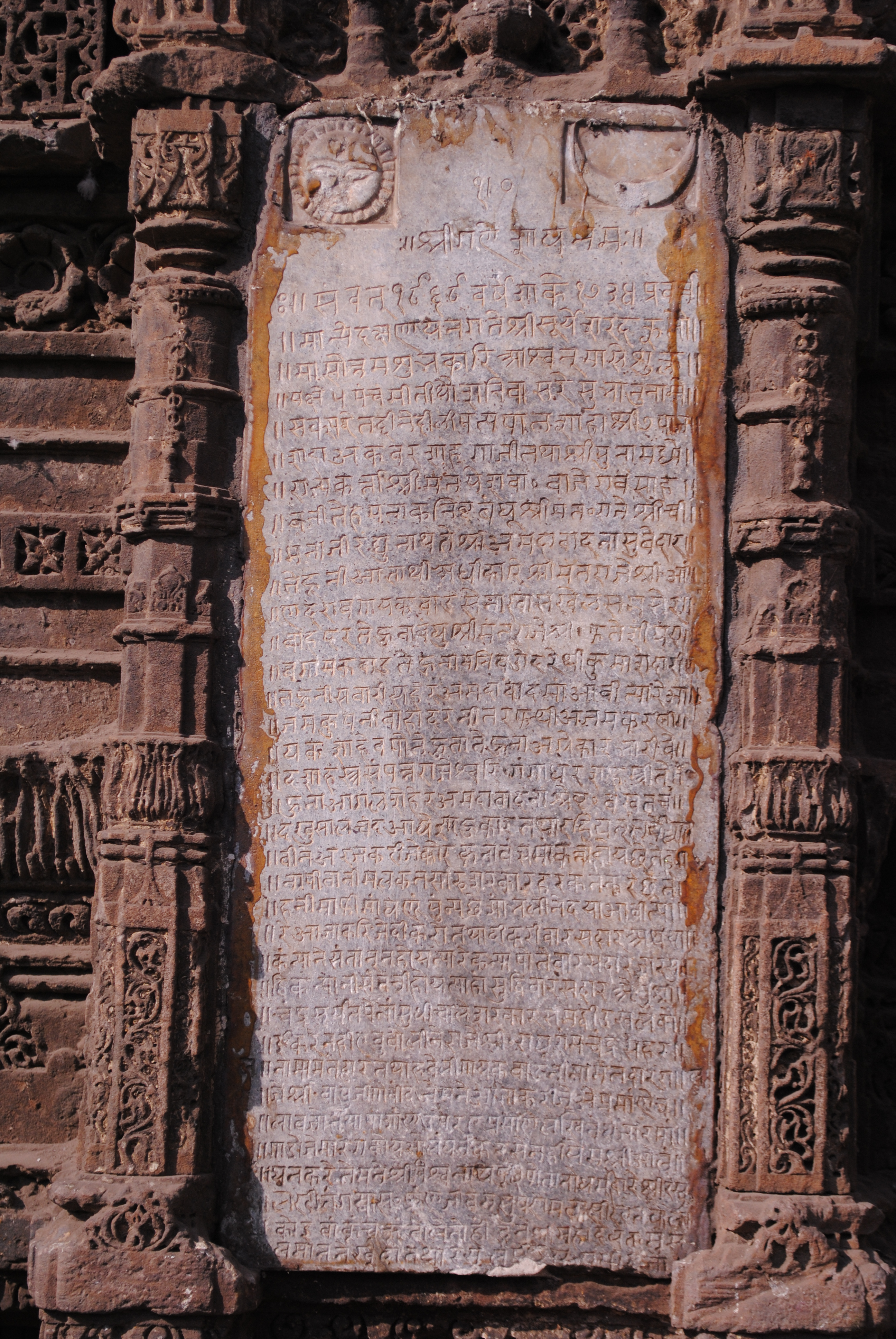 inscription on one of the pillars, Teen Darwaza, Ahmedabad(?)